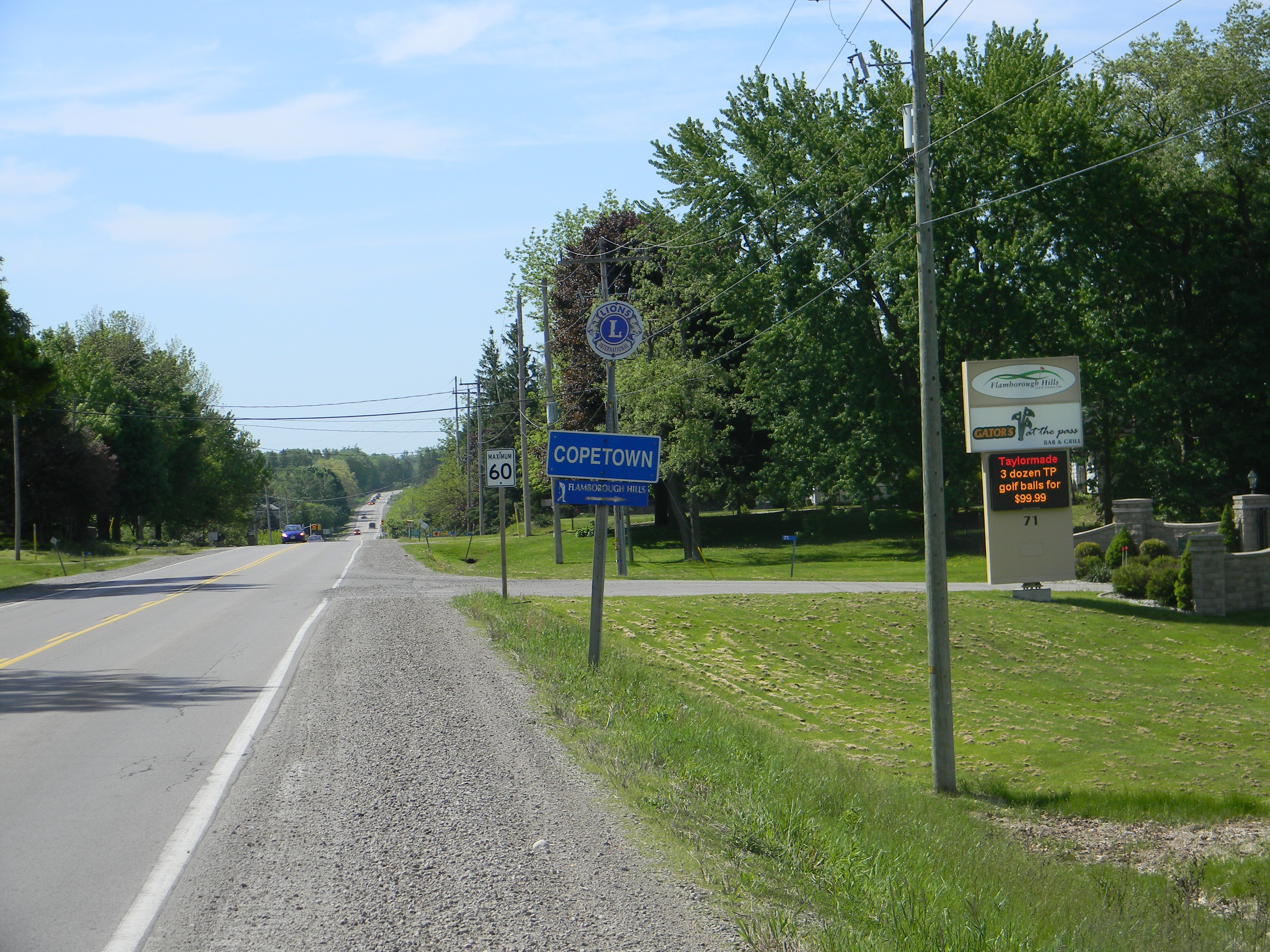 Copetown, West Flamborough, Ontario, Canada